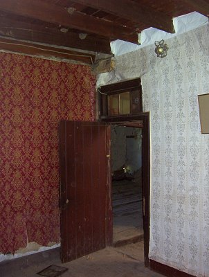 Mountain View Homestead and General Store: Mountain View Homestead interior